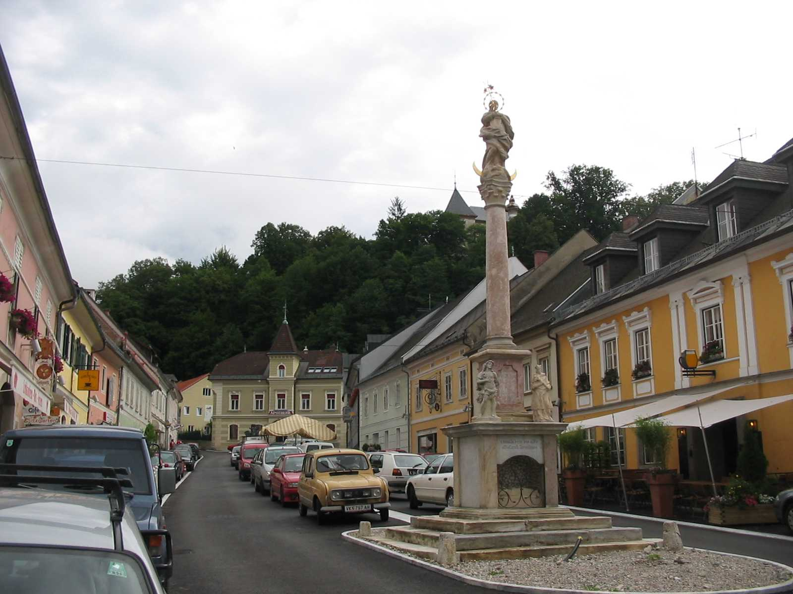 Center of city Pliberk (German Bleiburg) in Carinthia